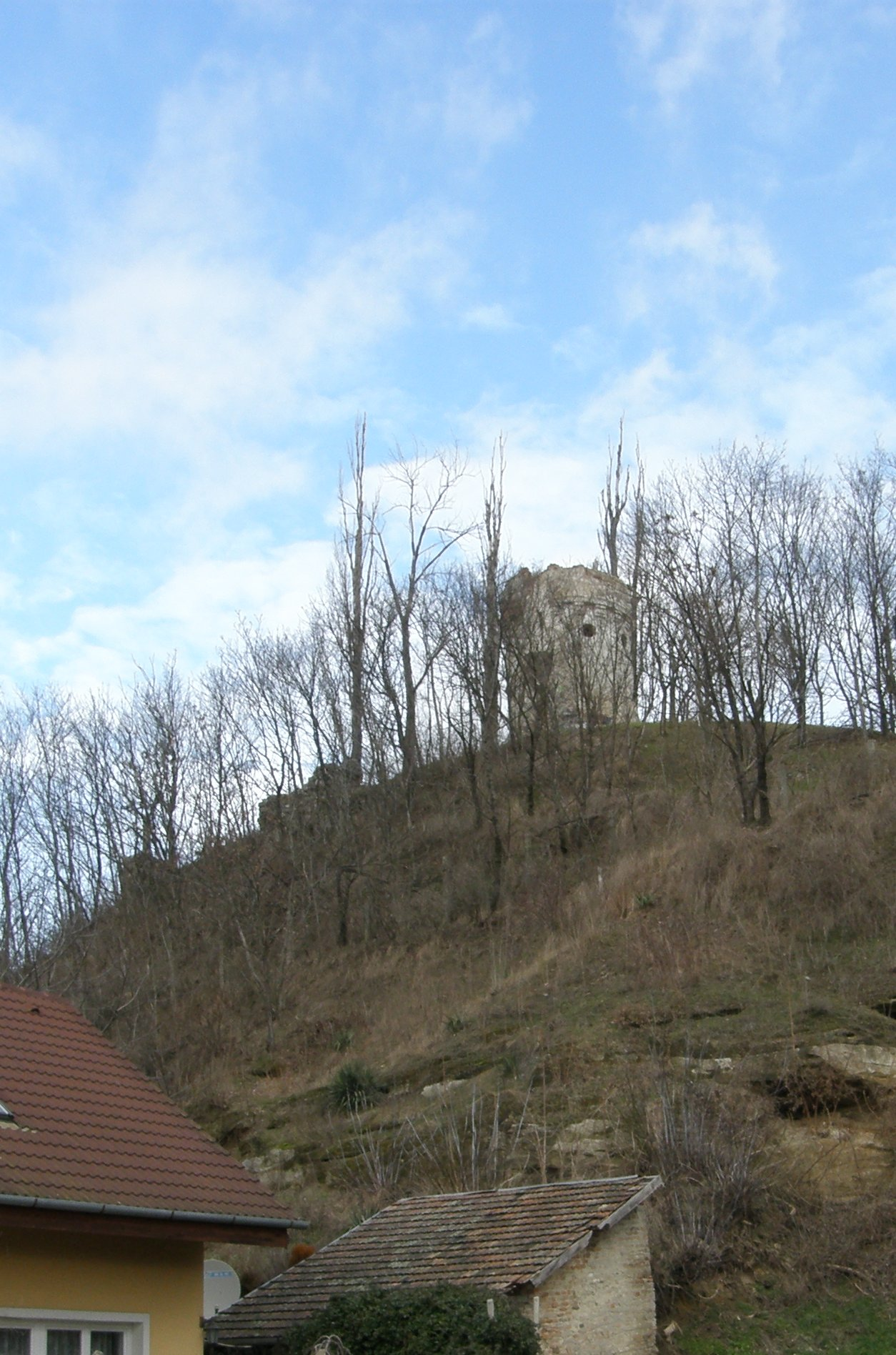 Ruins of Bernolákovo (former Čeklís) castle with water tower